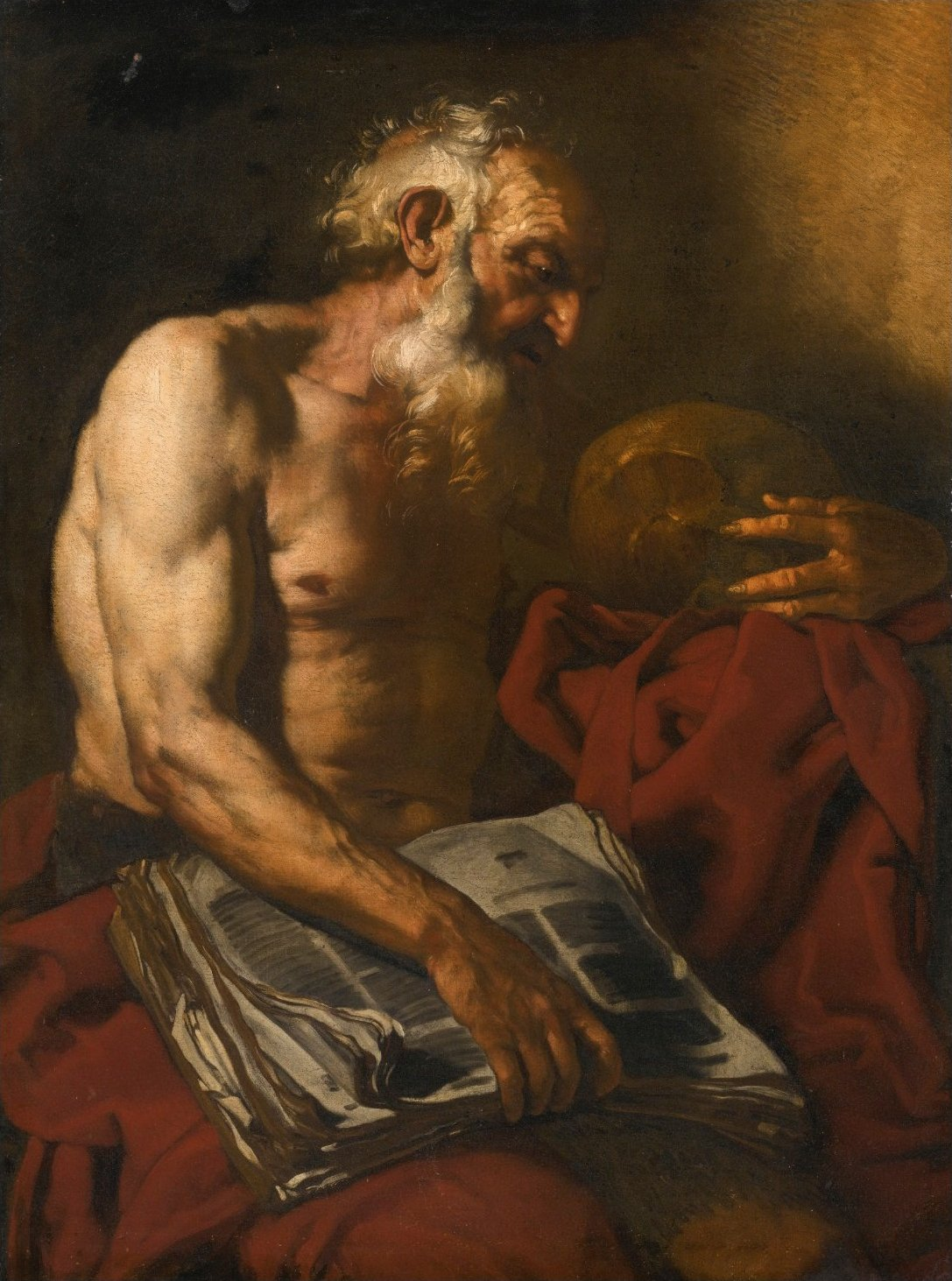 Saint Jerome by Johann Carl Loth, oil on canvas, 108 by 81.3 cm.